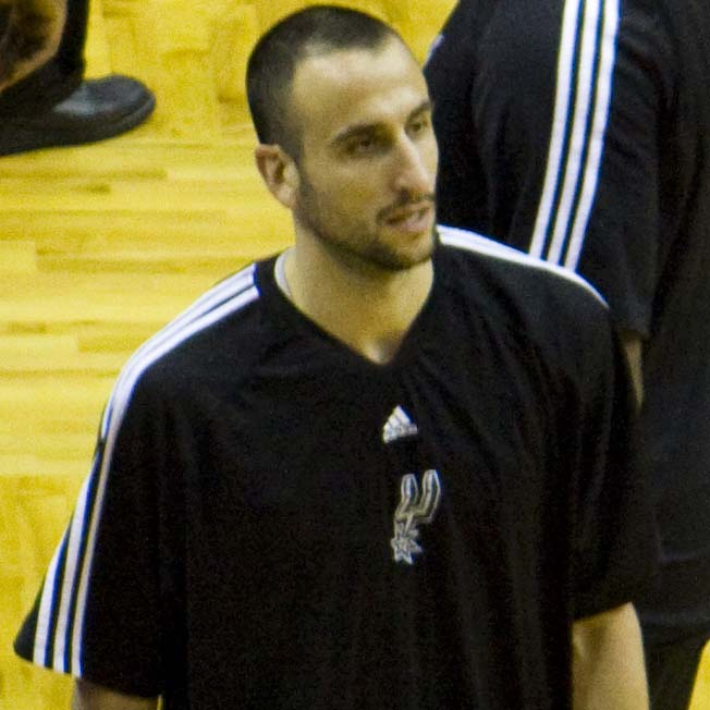 Emanuel Ginóbili This file has been extracted from another file: Keith Bogans and Manu Ginóbili.jpg